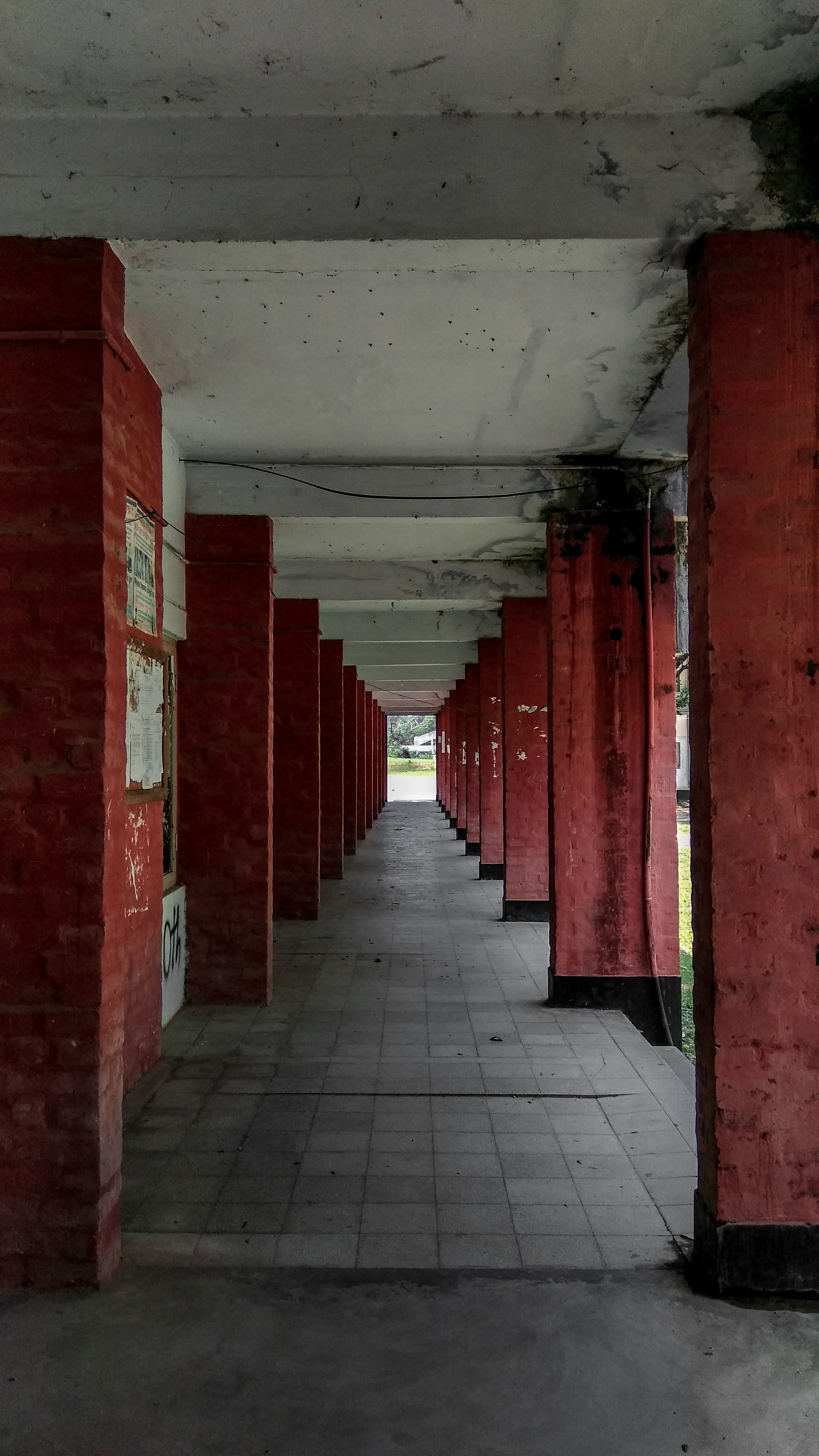 This is an image of CU school and laboratory college.